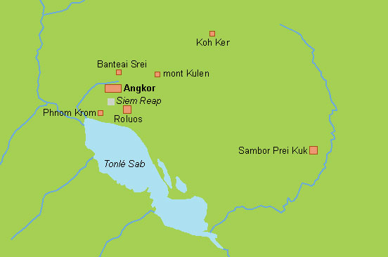 Angkor and his surroundings. Cambodia